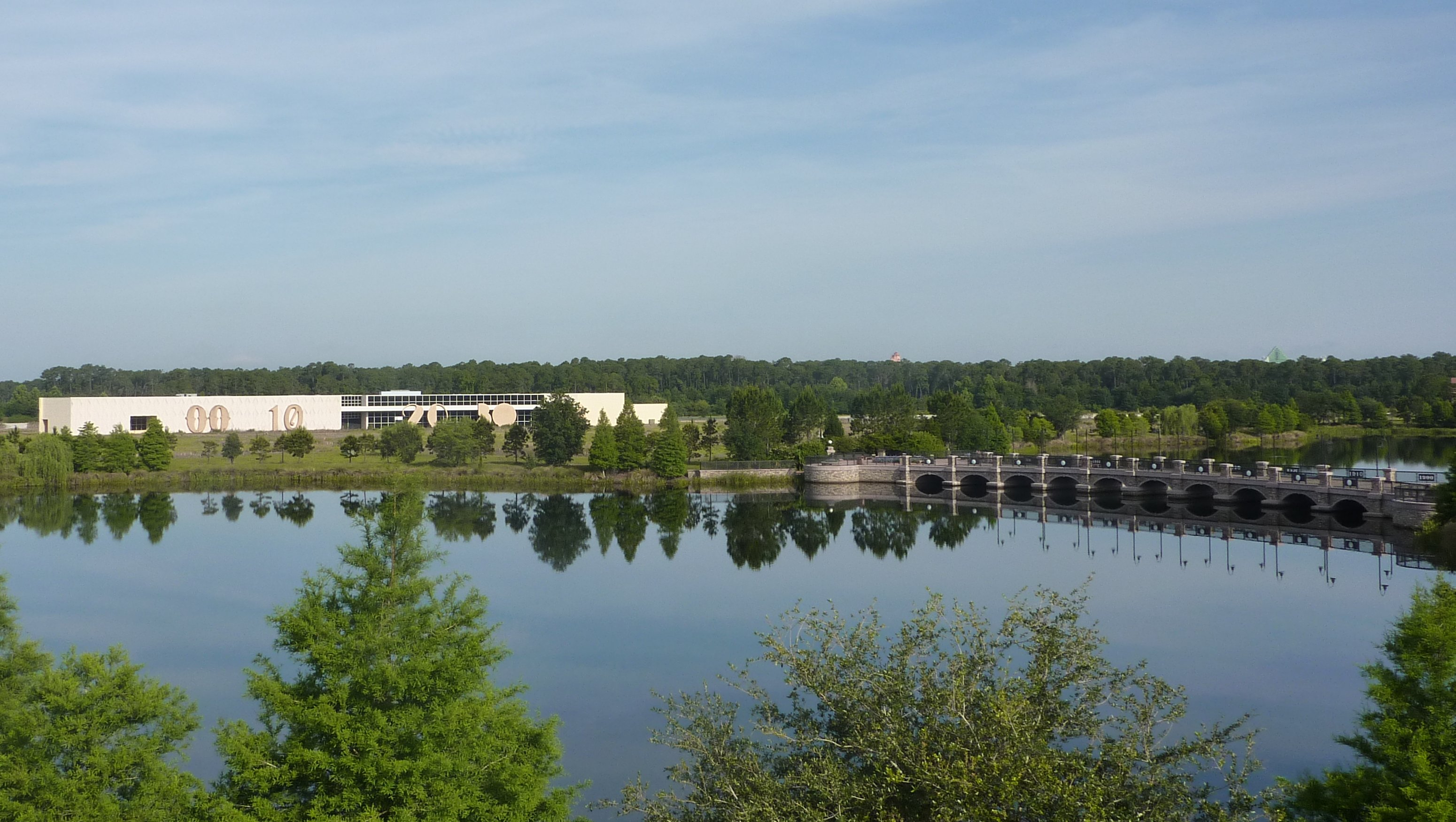 A view on the Generation Gap Bridge at Disney's Pop Century Resort, and former Legendary Hall that will become the main building of Disney's Art of Animation.